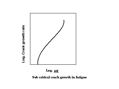 Subcritical crack growth in fatigue-schematic.